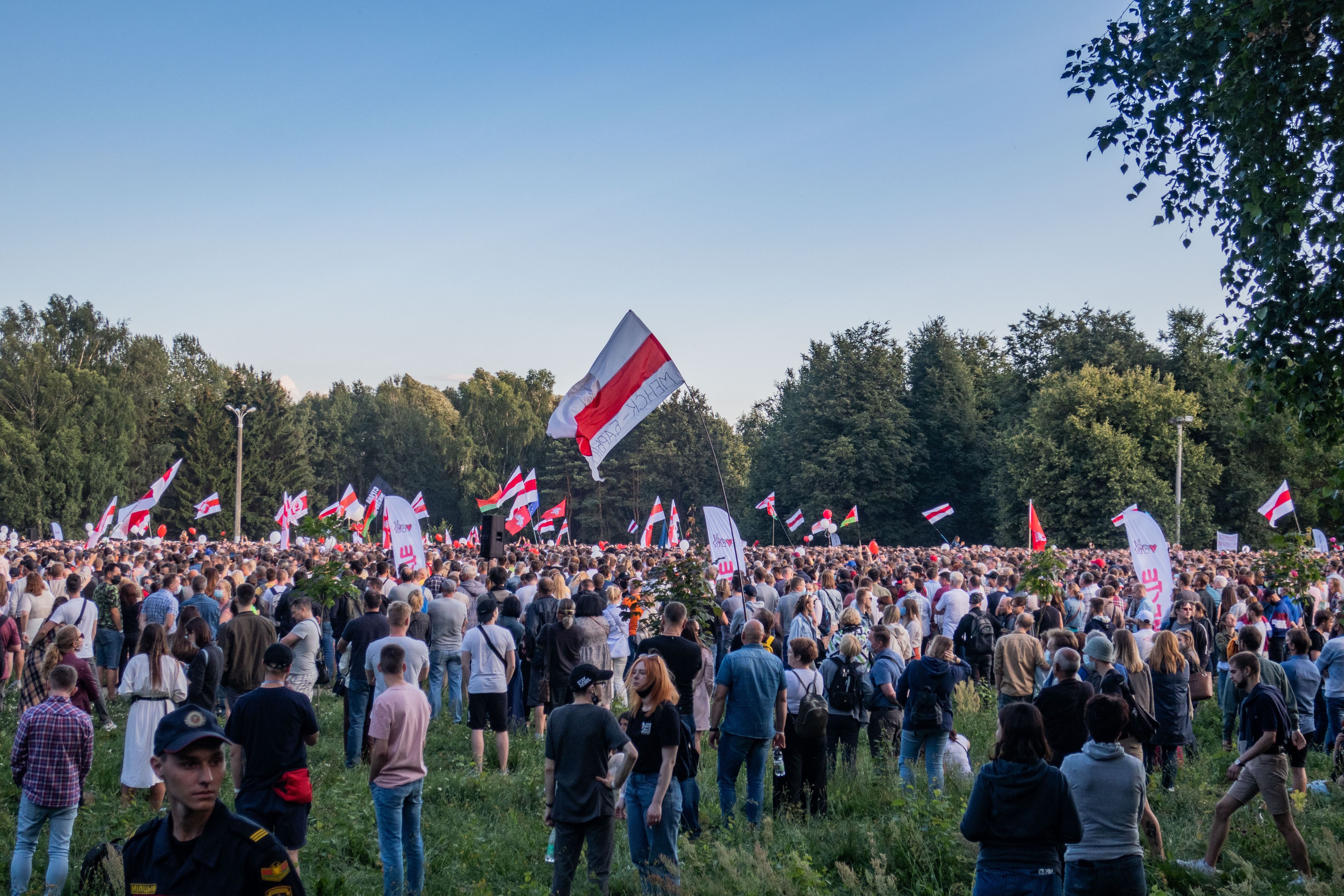 Rally in support of Sviatlana Tsikhanoŭskaya and the joint campaign headquarters. 30 July 2020, Minsk, Belarus